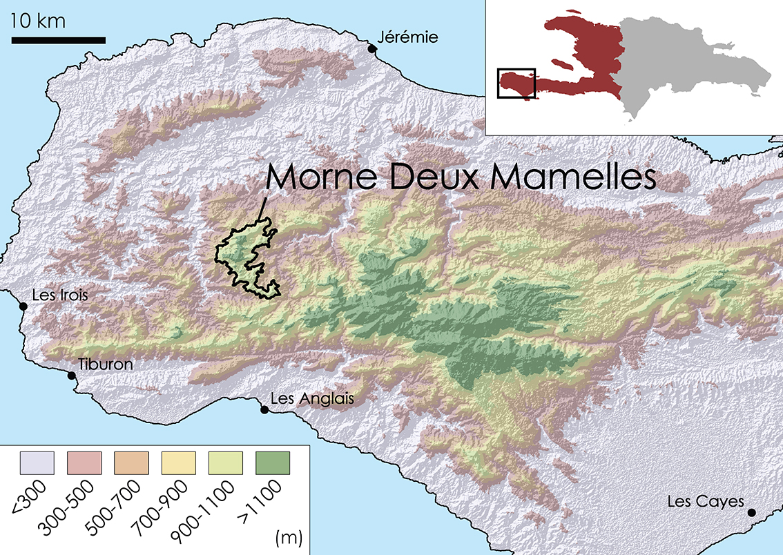 Deux Mamelles National Park boundaries on a topographic map of Haiti (Center for Biodiversity)